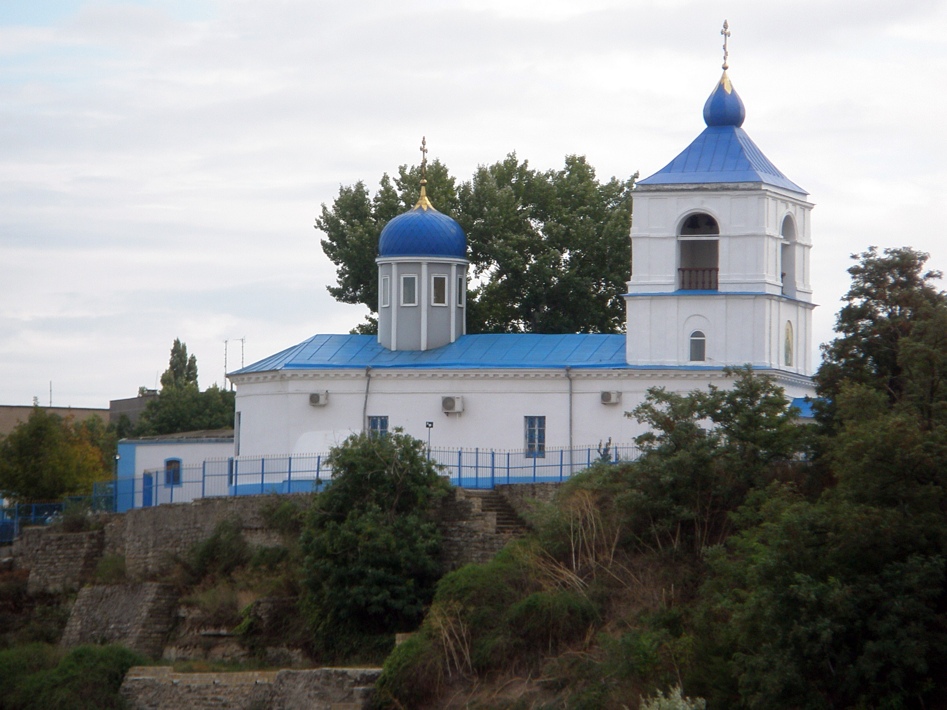 Greek Church of St. John the Baptist (XIII—XVII century), Bilhorod-Dnistrovskyi, 13 Leon Popov Street